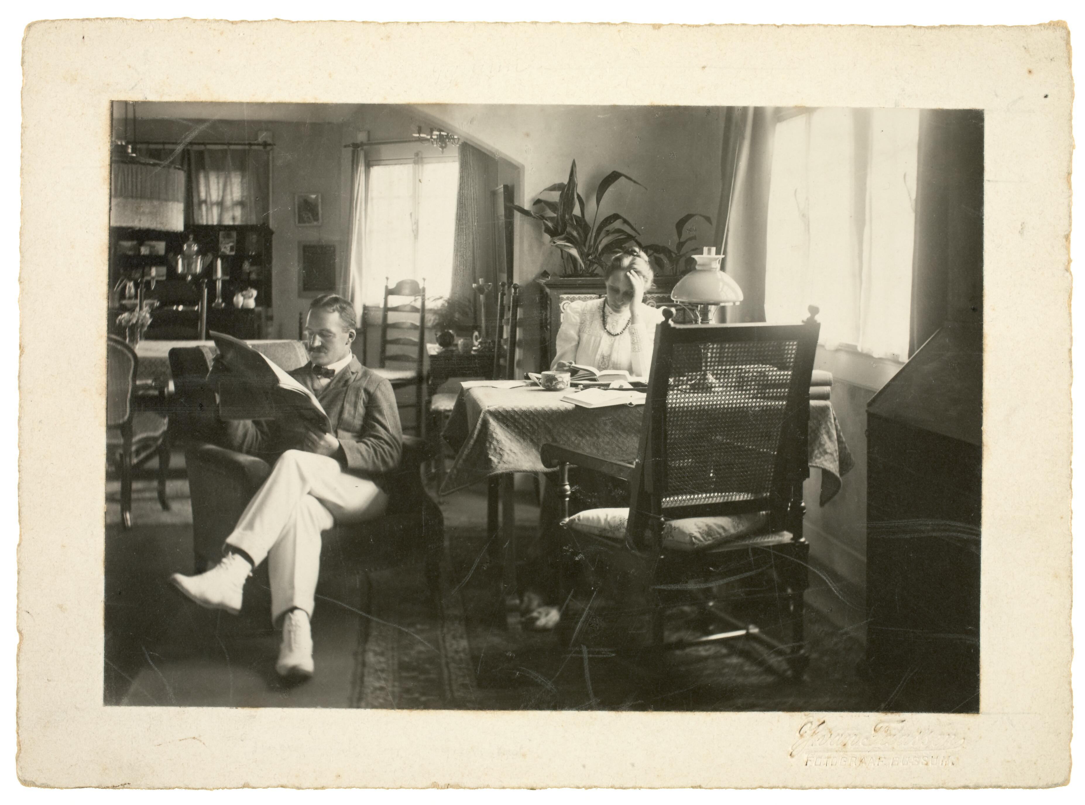 R.N. Roland Holst en H. Roland Holst in hun woning te 's-Graveland. Photo made between 1896-1903